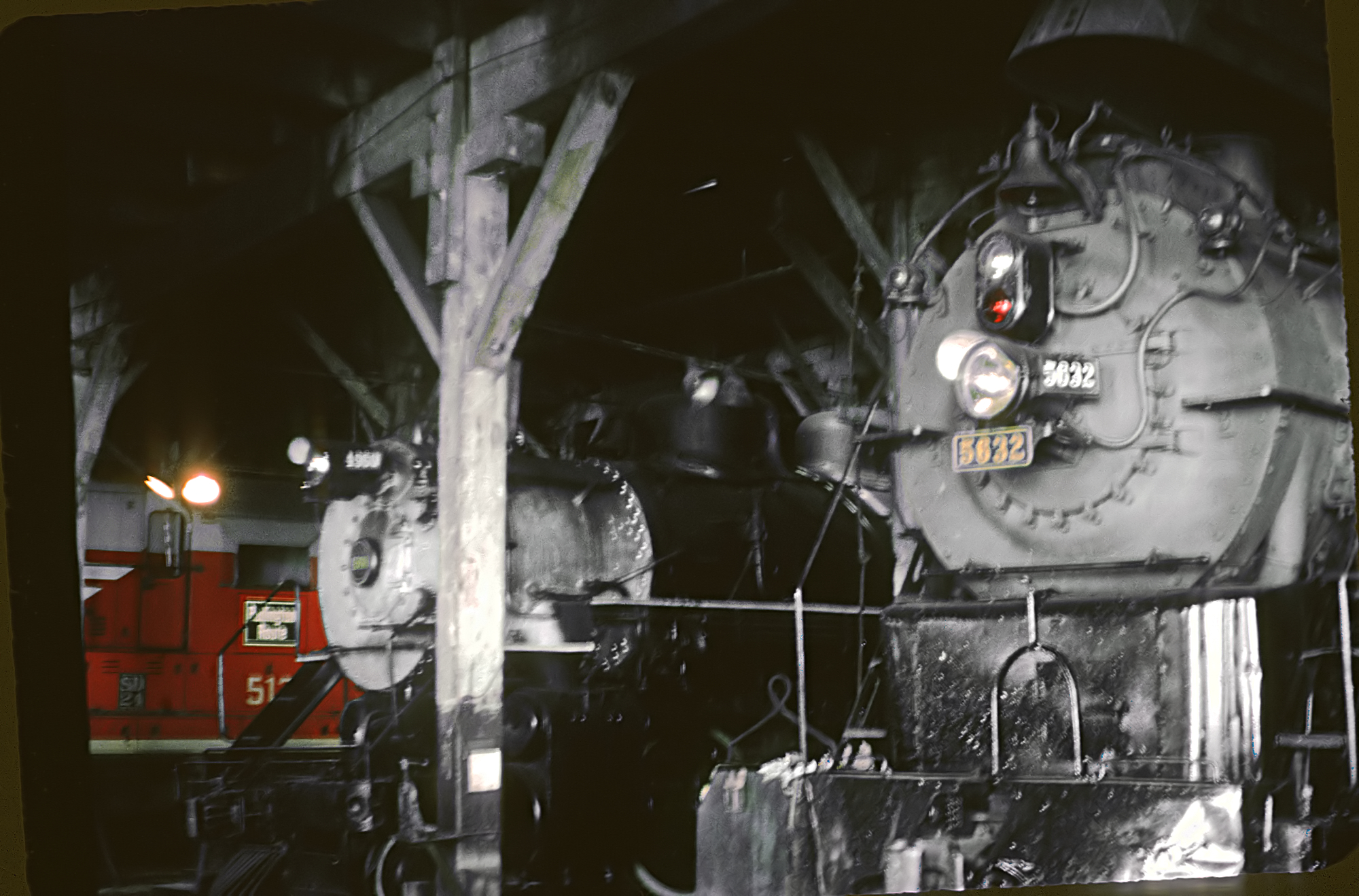 CB&Q O5-B 4-8-4 5632 and O1-A 2-8-2 4960 with SD24 freight unit in the Clyde roundhouse, Cicero, Illinois on August 22, 1962.